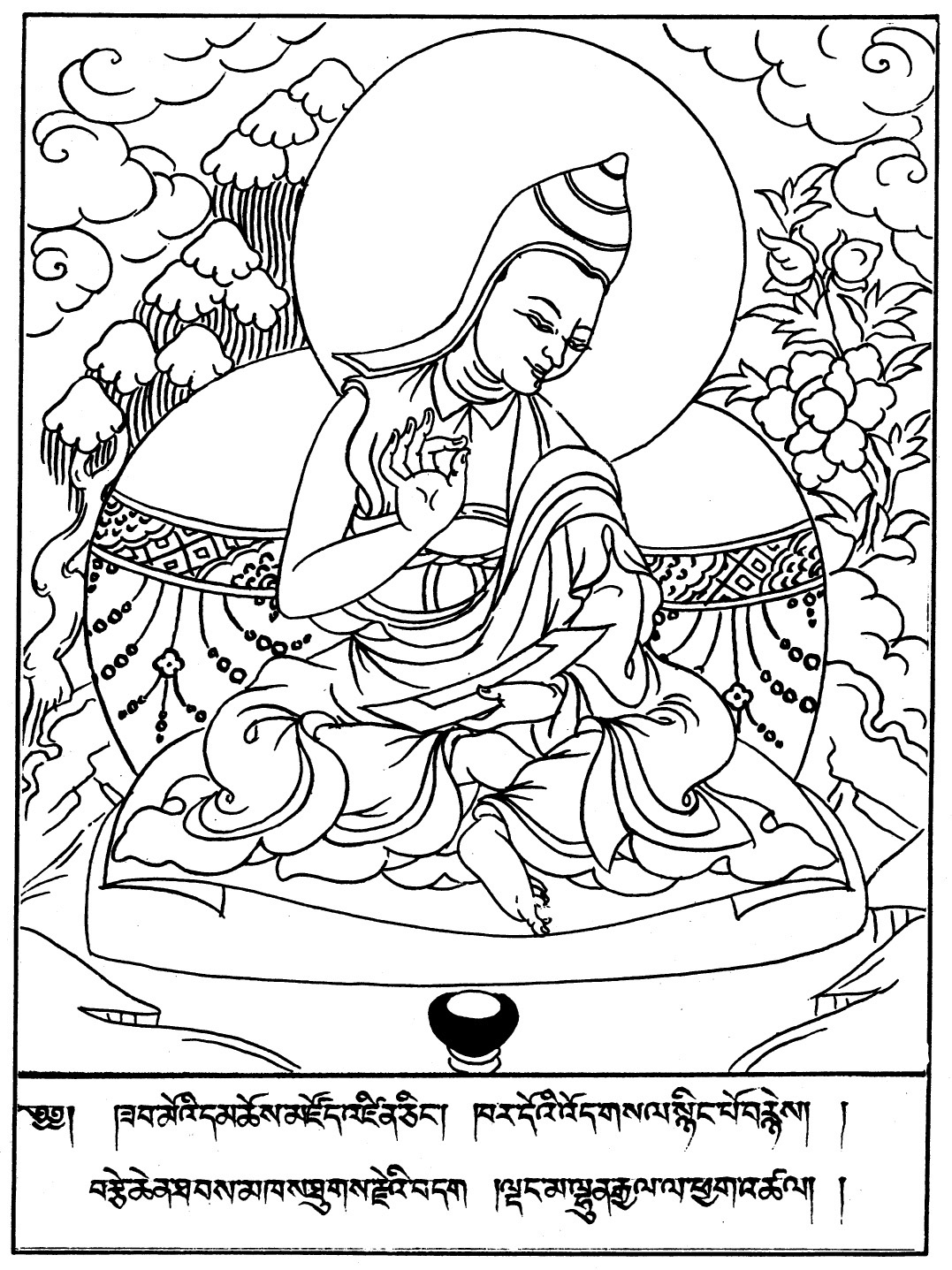 Dangma Lhungyal, 11th Century Terton